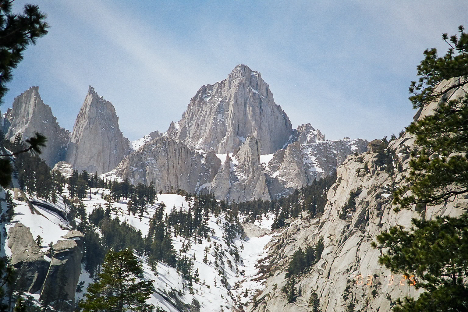 Mount Whitney